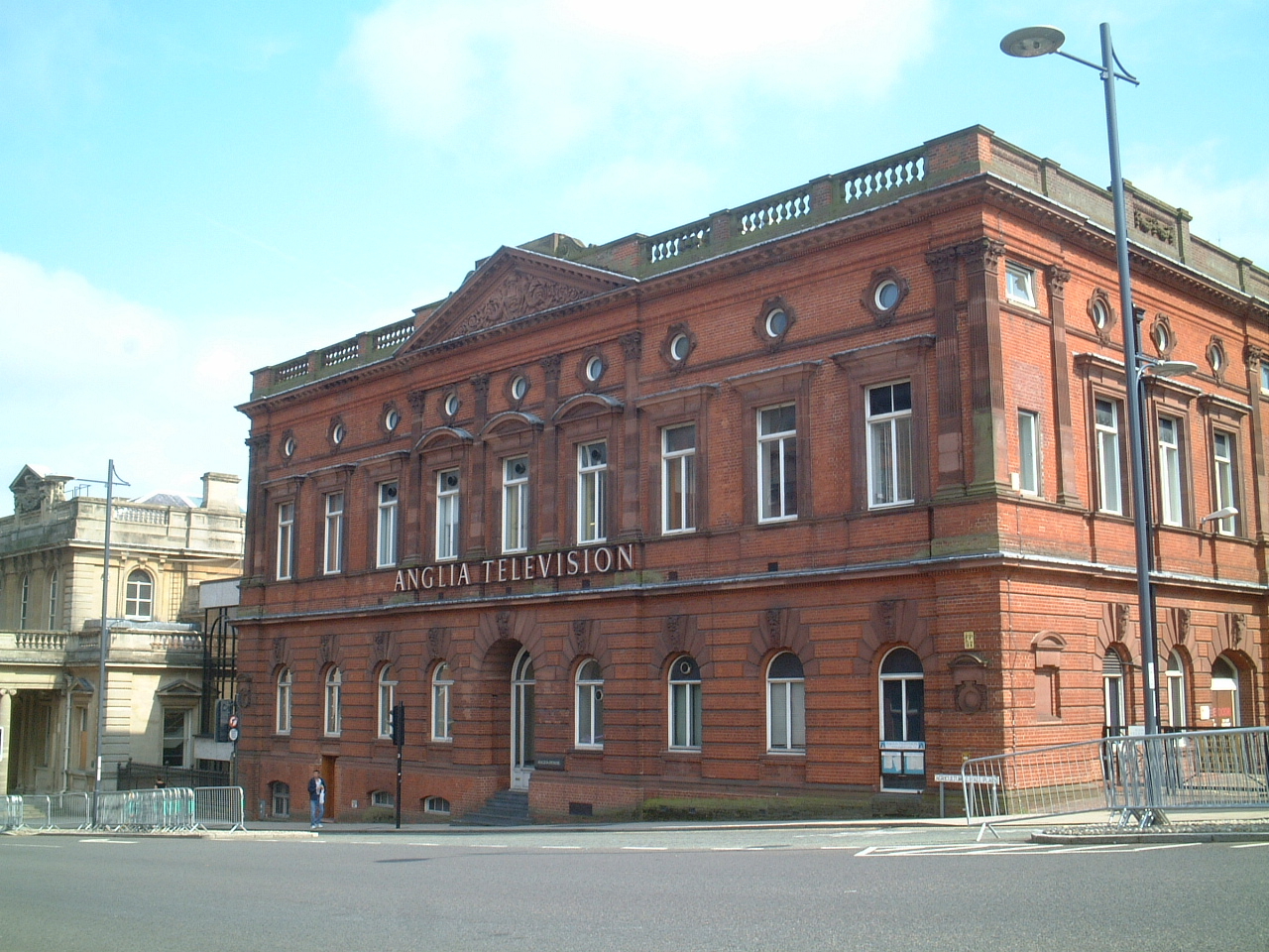 Anglia House, the headquarters of Anglia Television, located on Prince of Wales Road in Norwich, England. Photo taken on a FujiFilm Finepix 40i digital camera by Paul Hayes in 2005, and uploaded to Wikimedia by same.